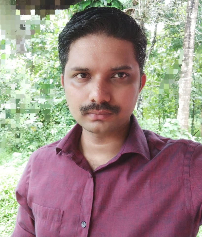 Anoop Rao is a Kannada Wikimedian. This picture is clicked by his brother.